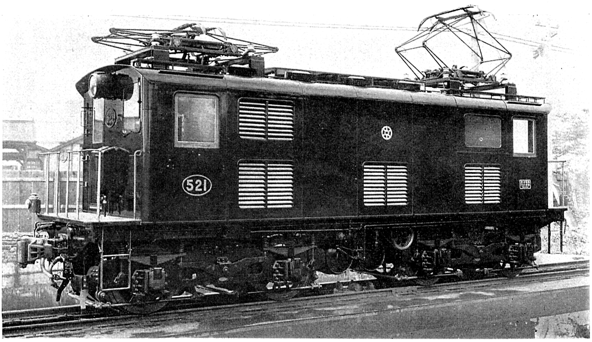 Ise Electric Railway Type 521 Electric Locomotive No.521